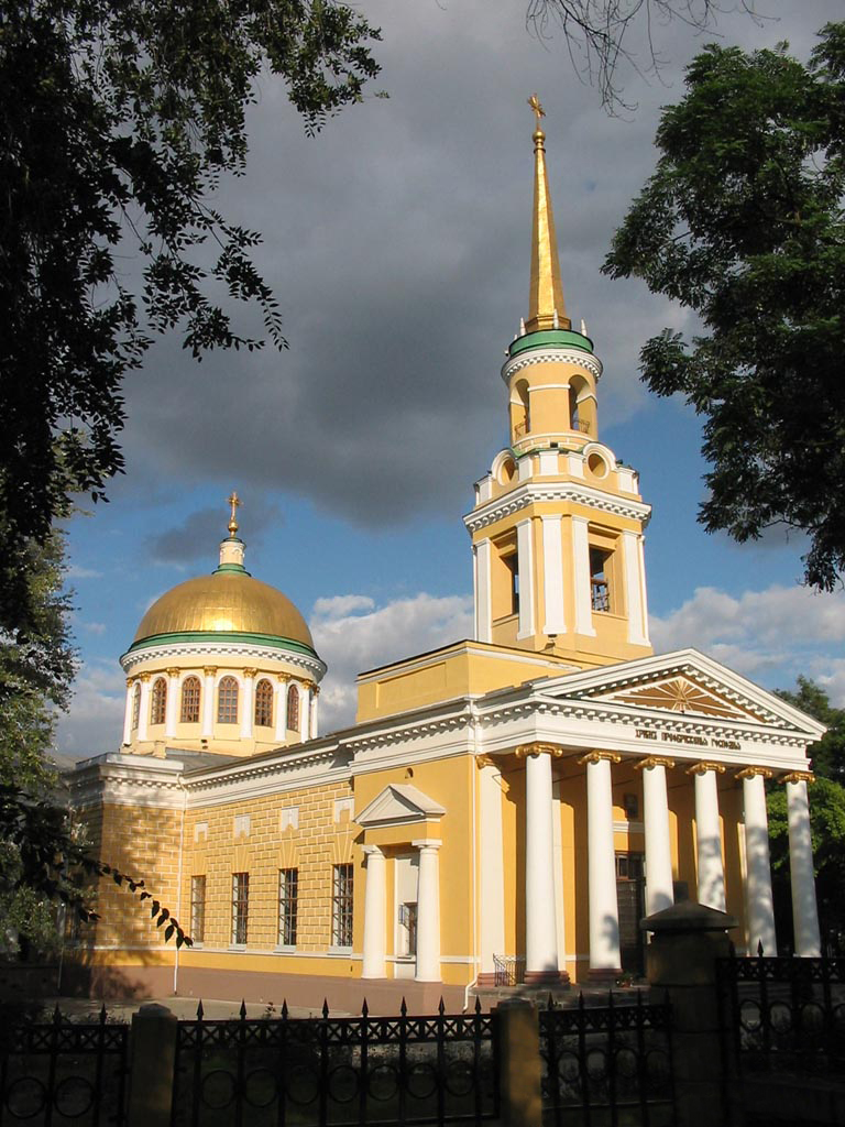 The Dnepropetrovsk, the Holy Transfiguration Cathedral (1830-1835)